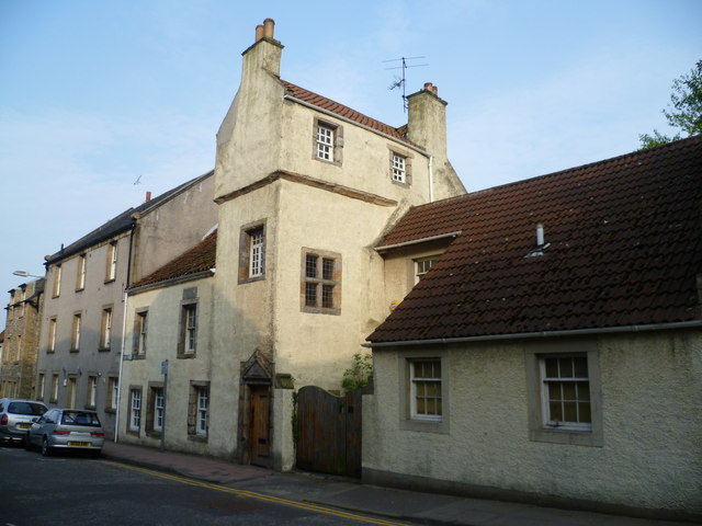 Thomsoun's House, Bank Street